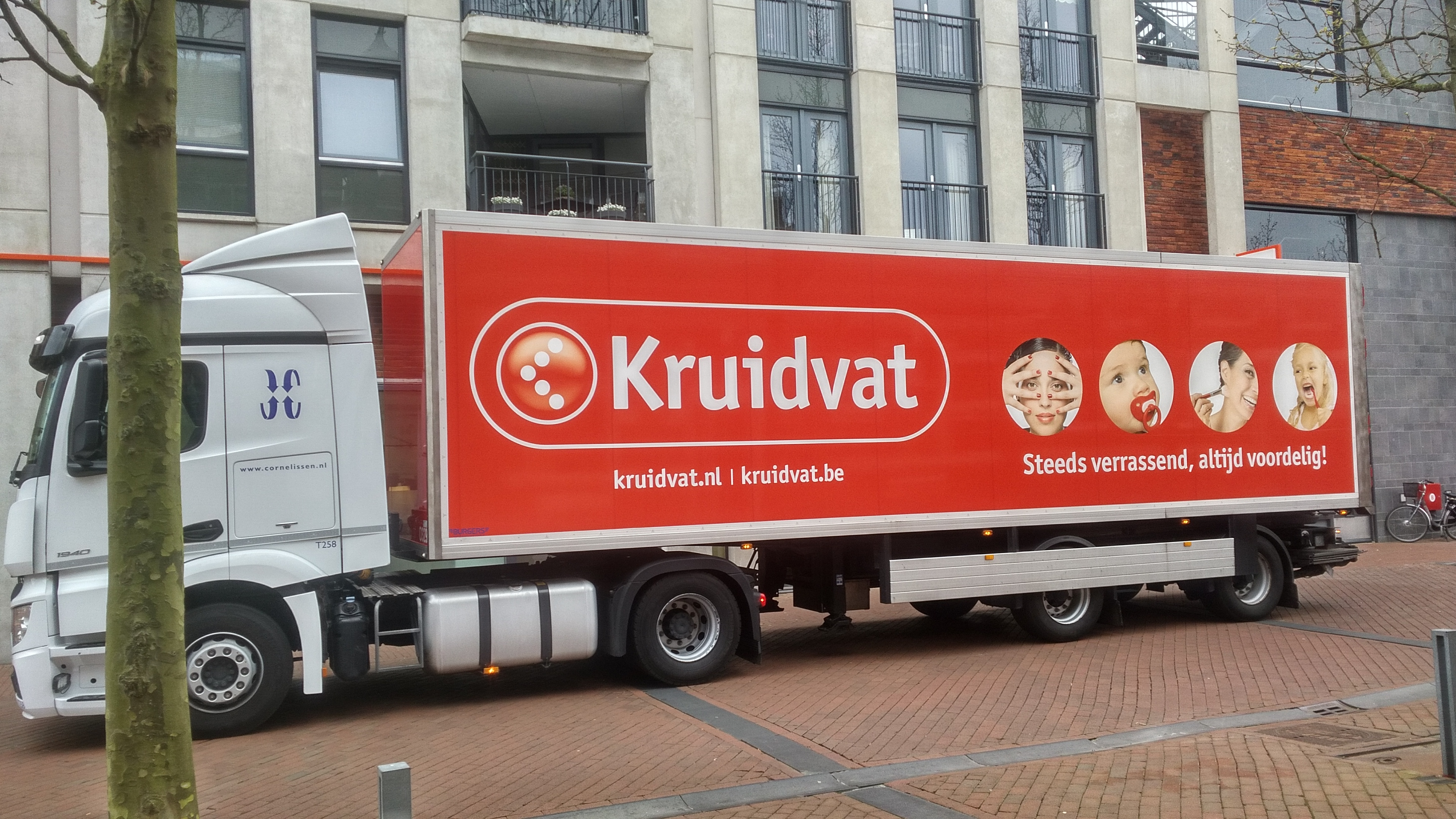 A supply lorry for the Kruidvat in the Groninger city of Winschoten, Oldambt.